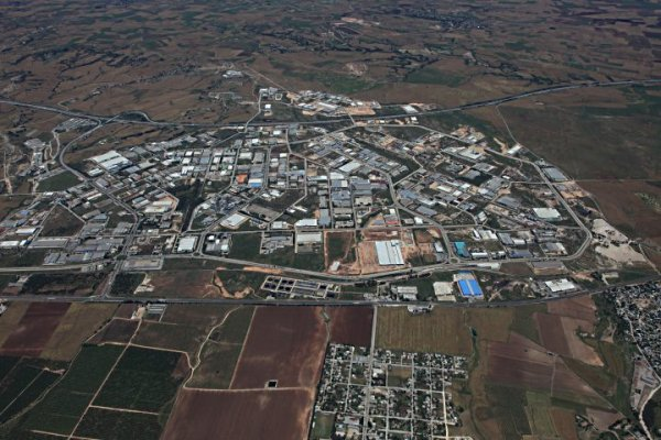 Adana Organised Industrial Zone